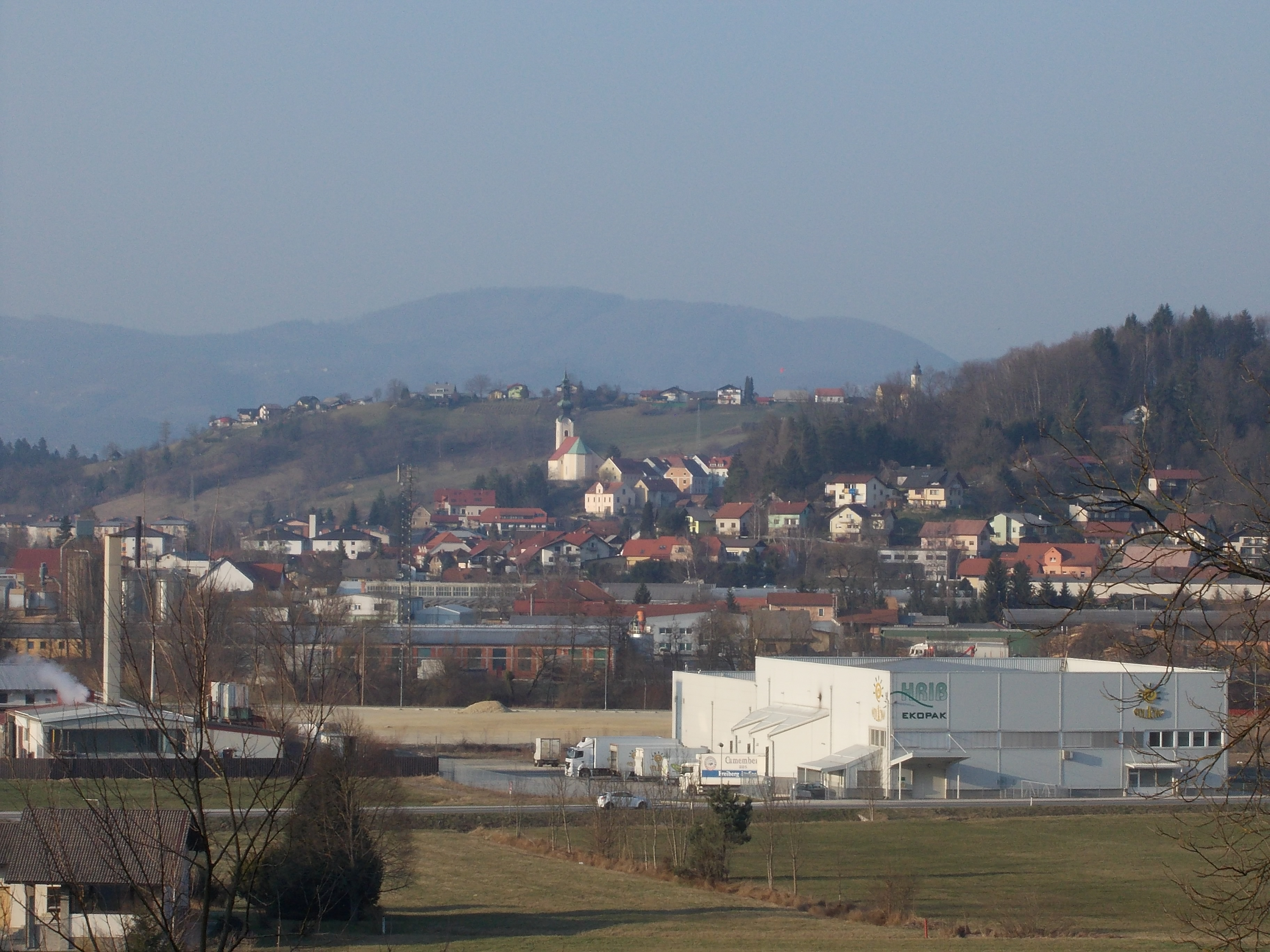 Šentjur